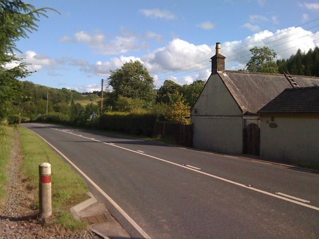 A76 at Enterkinfoot